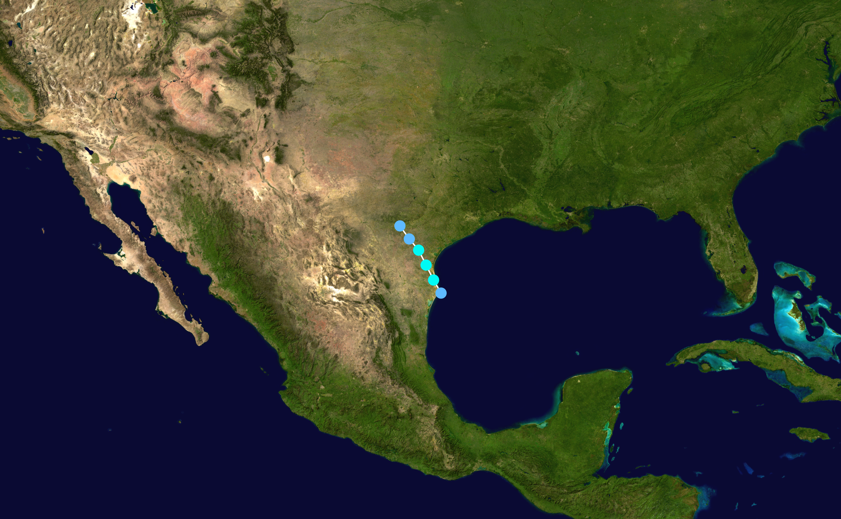 Tropical Storm Amelia (1978) track. Uses the color scheme from the Saffir-Simpson Hurricane Scale.